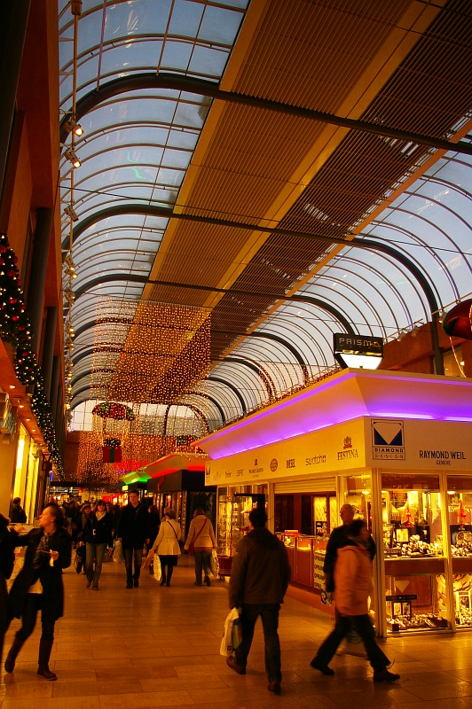 Amstelveen Binnenhof Winkelcentrum (shopping centre)